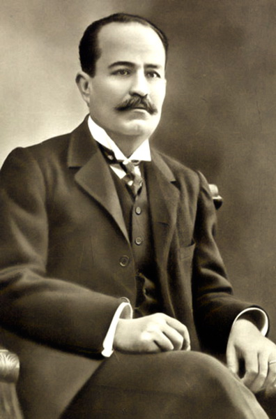 Jurji Zaydan (Edited version)